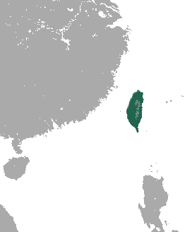 Taiwanese Mole Shrew (Anourosorex yamashinai) range